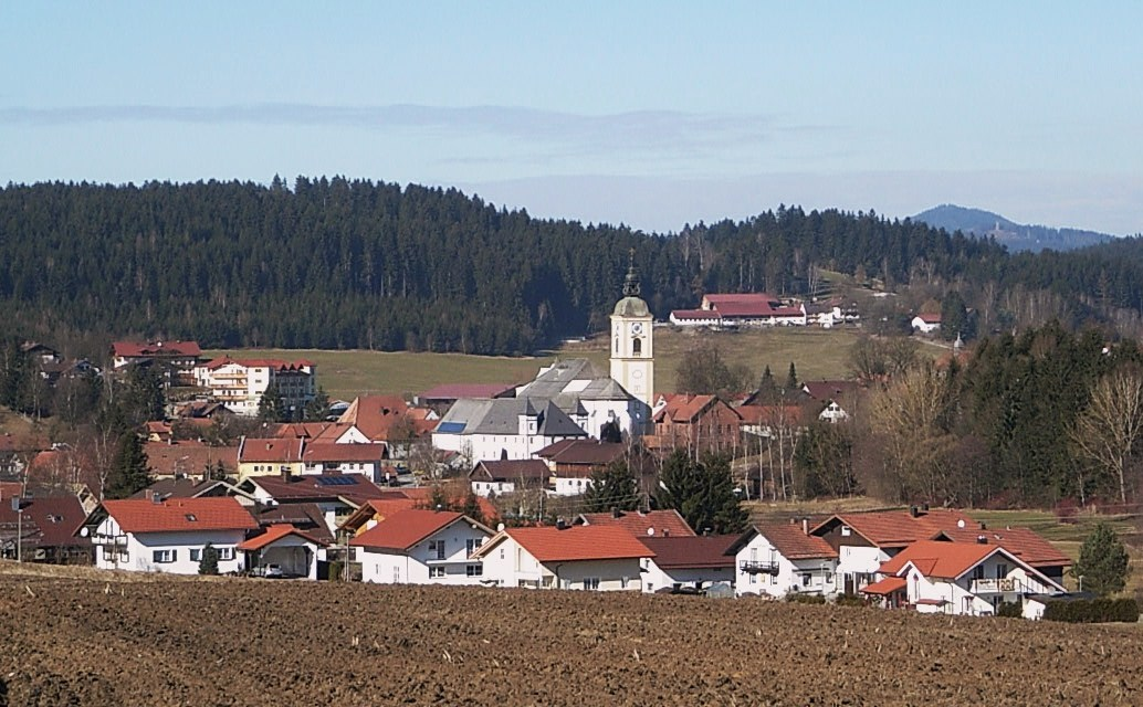 General view of Rinchnach from south-east.